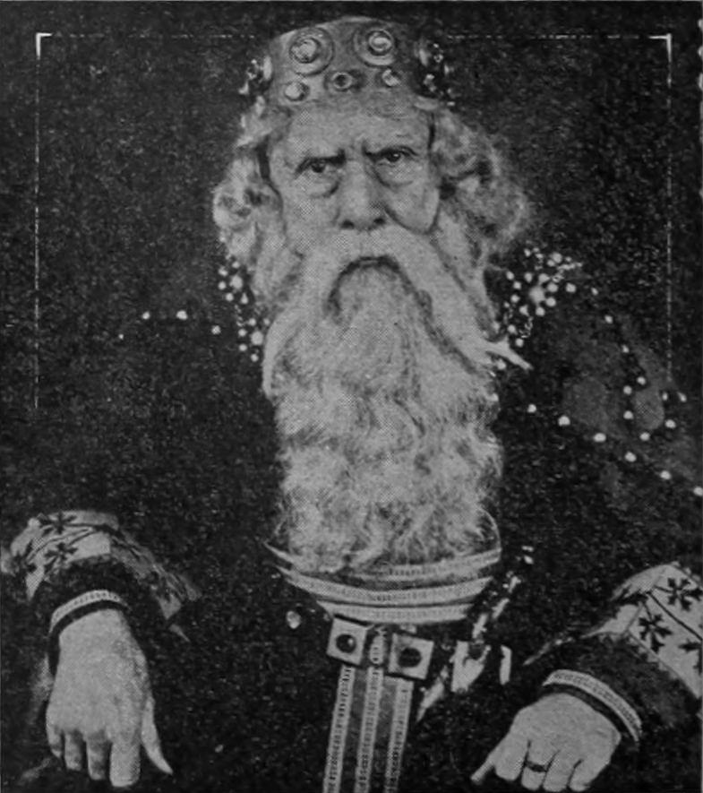 A promotional photo for King Lear (1916), showing Frederick Warde as King Lear.